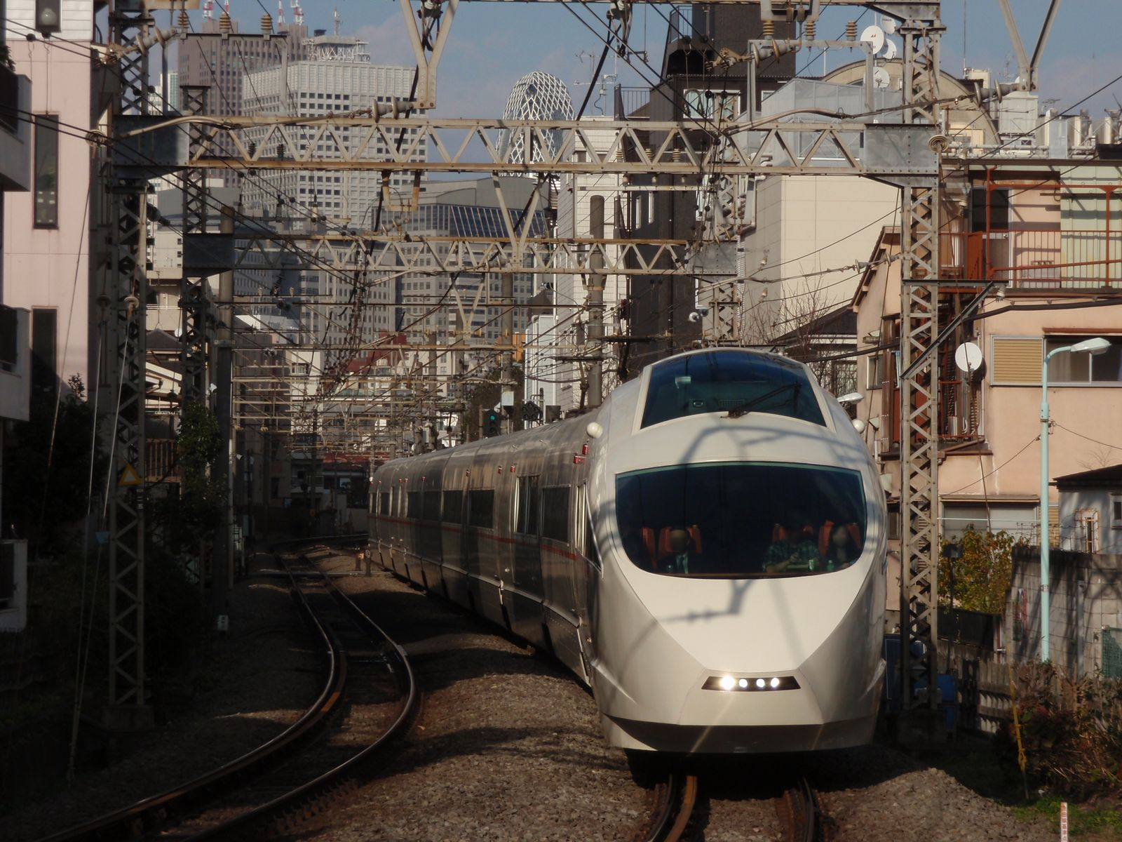 Odakyu Electric Railway,EMU Type 50000 "Super Hakone No.27" At between Sangubashi Sta. and Yoyogihachiman Sta.